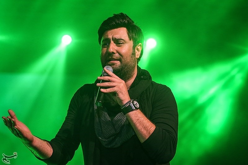 Mohammad Alizadeh concert of 25 February 2017, Kish